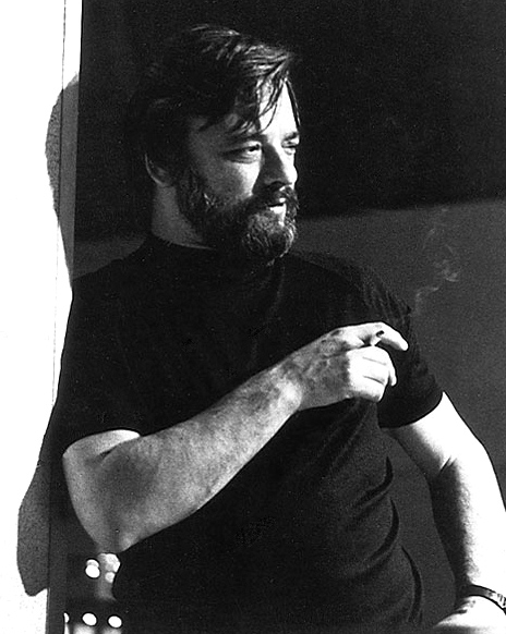 Autographed publicity photo of Stephen Sondheim. The fact that this is a signed photo given to an apparent fan indicates it was previously used for that purpose. The original photo was 8" x 10". See also: film still article for general description of non-copyright status of publicity photos. No copyright information shown on photo.